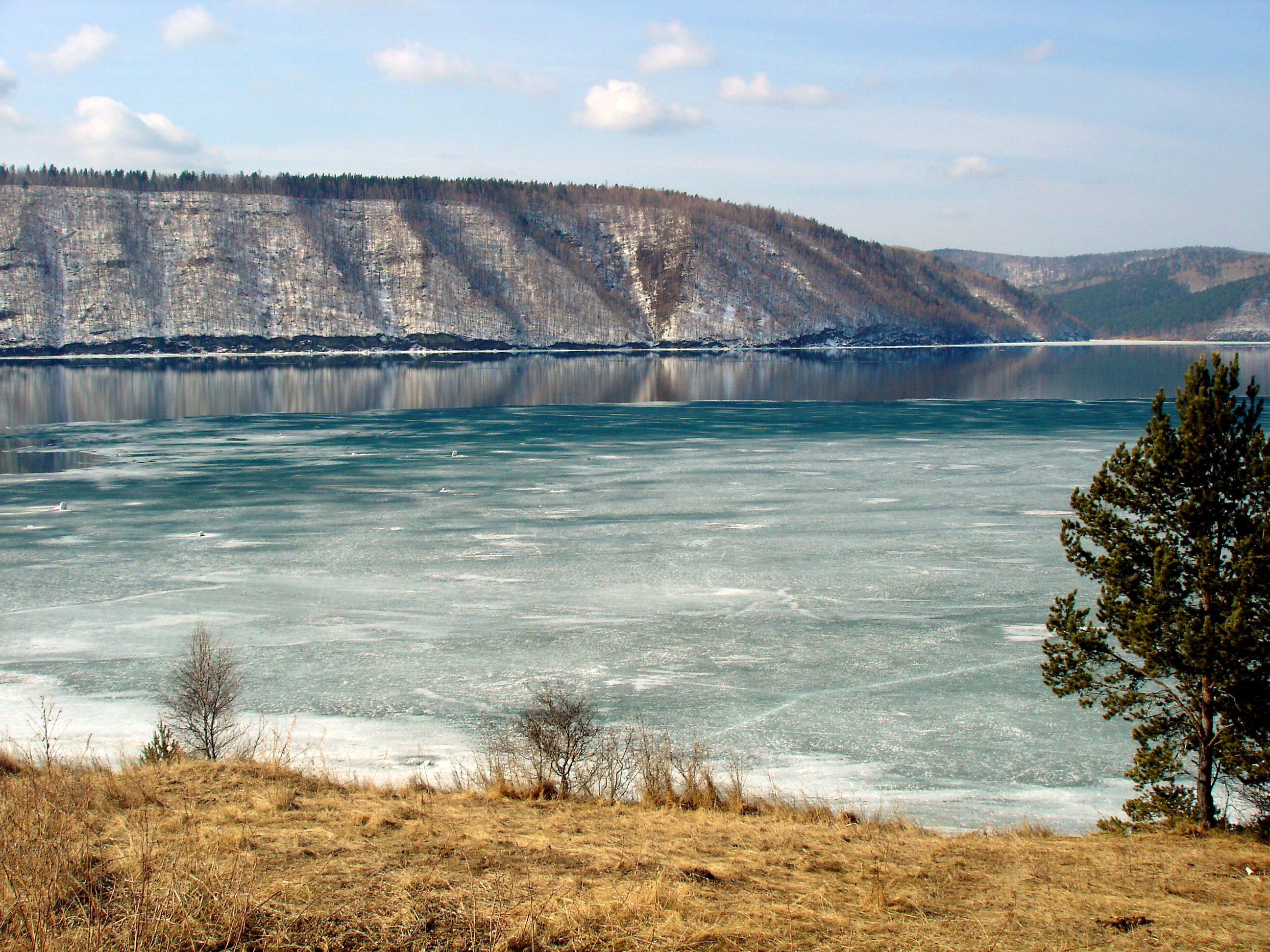 River Angara at Talzy close to Lake Baikal